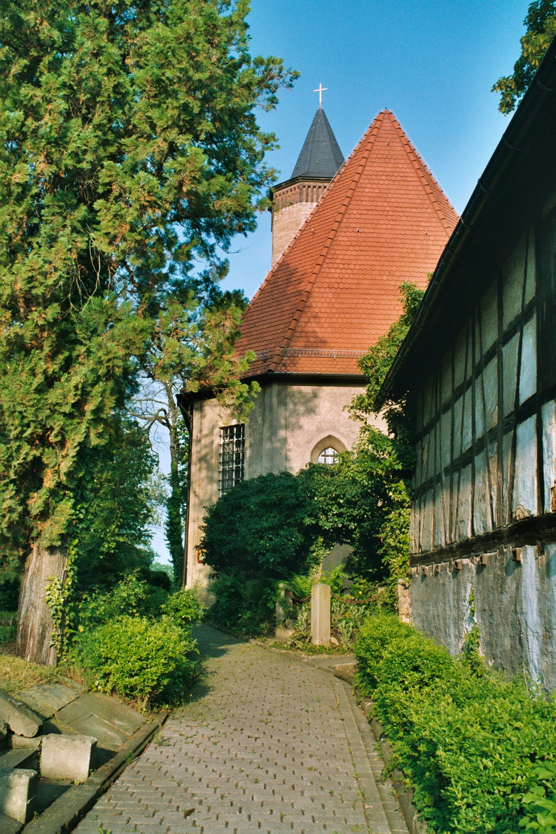 Theißen (Zeitz), the village church